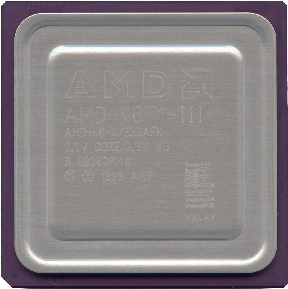 IC photo